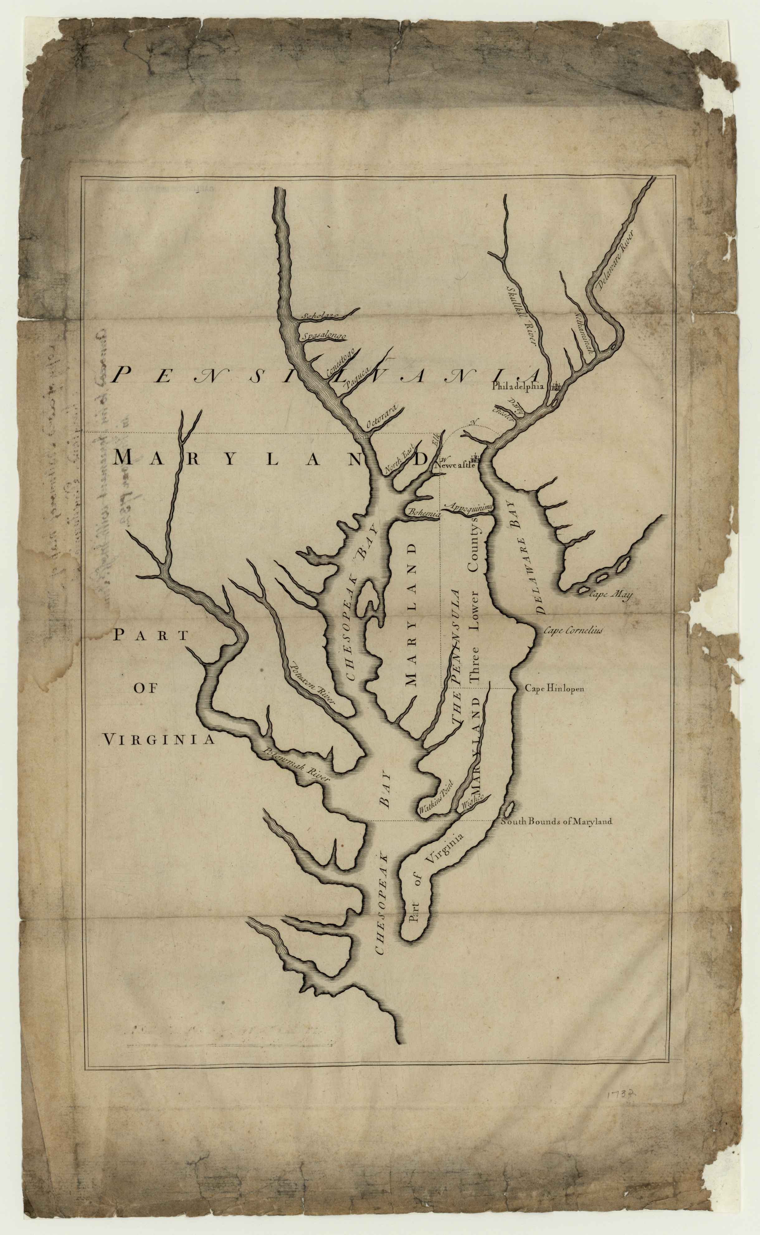 Description Lord Baltimore’s map of Maryland, Pennsylvania, etc., annexed to his agreement with Messrs. Penn in the year 1732. Map made to accompany agreement between Lord Baltimore and Messrs. Penn